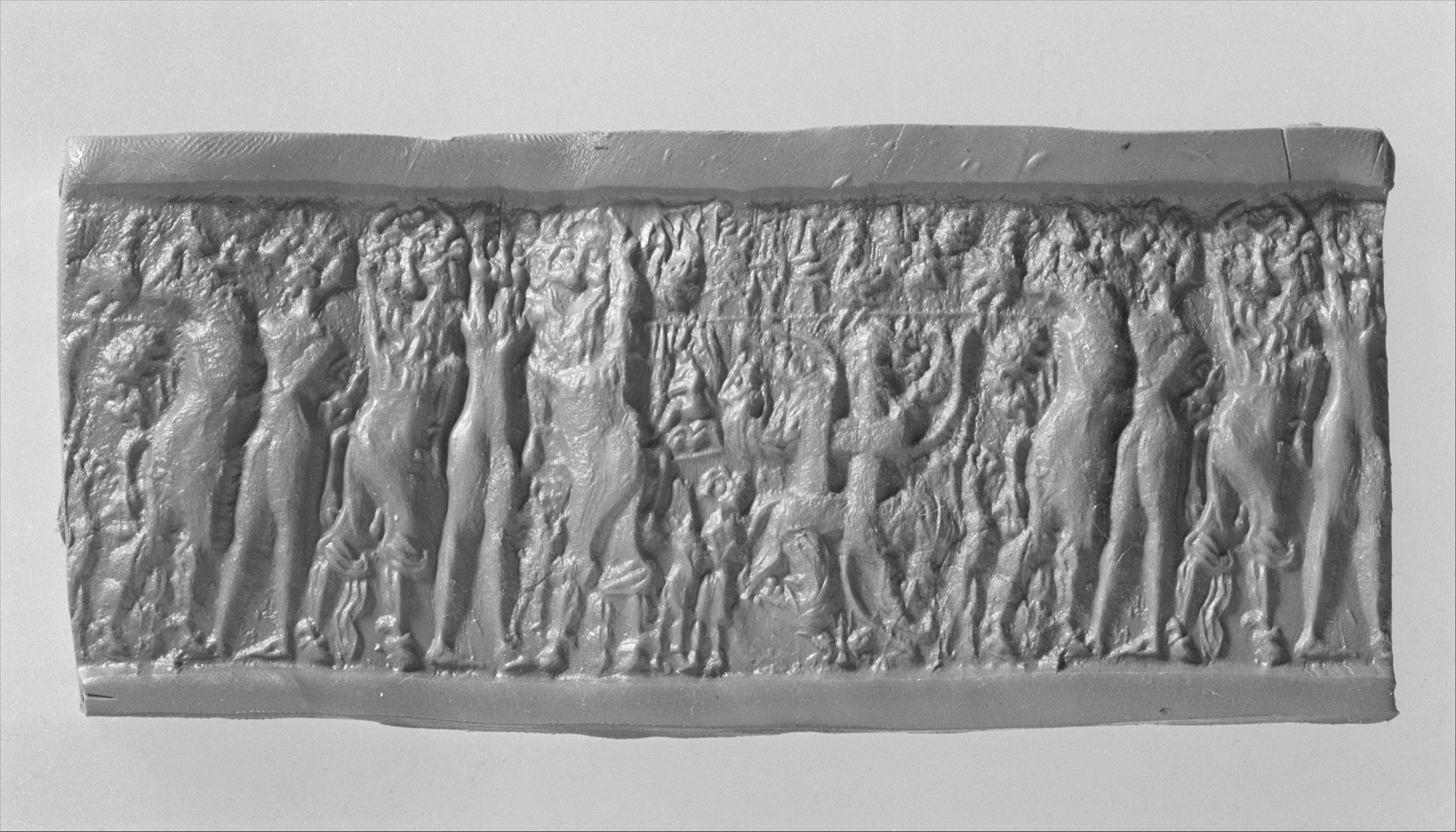 Sumerian; Cylinder seal; Stone-Cylinder Seals-Inscribed